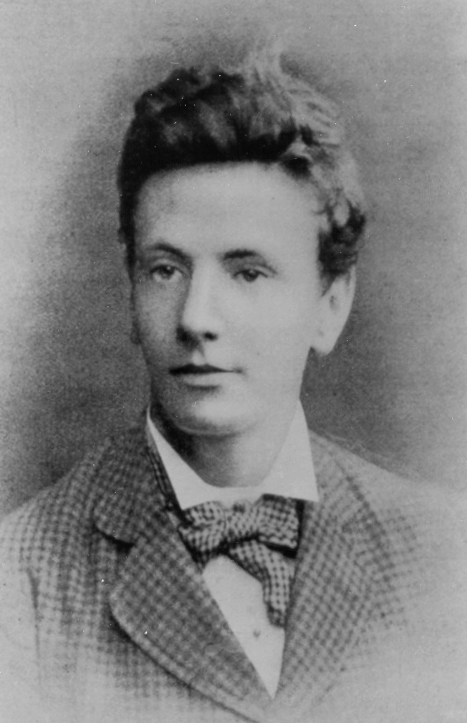 William Sutherland in his twentieth year This work is in the public domain in its country of origin and other countries and areas where the copyright term is the author's life plus 70 years or less. You must also include a United States public domain tag to indicate why this work is in the public domain in the United States. Note that a few countries have copyright terms longer than 70 years: Mexico has 100 years, Jamaica has 95 years, Colombia has 80 years, and Guatemala and Samoa have 75 years. This image may not be in the public domain in these countries, which moreover do not implement the rule of the shorter term. Côte d'Ivoire has a general copyright term of 99 years and Honduras has 75 years, but they do implement the rule of the shorter term. Copyright may extend on works created by French who died for France in World War II (more information), Russians who served in the Eastern Front of World War II (known as the Great Patriotic War in Russia) and posthumously rehabilitated victims of Soviet repressions (more information). This file has been identified as being free of known restrictions under copyright law, including all related and neighboring rights.